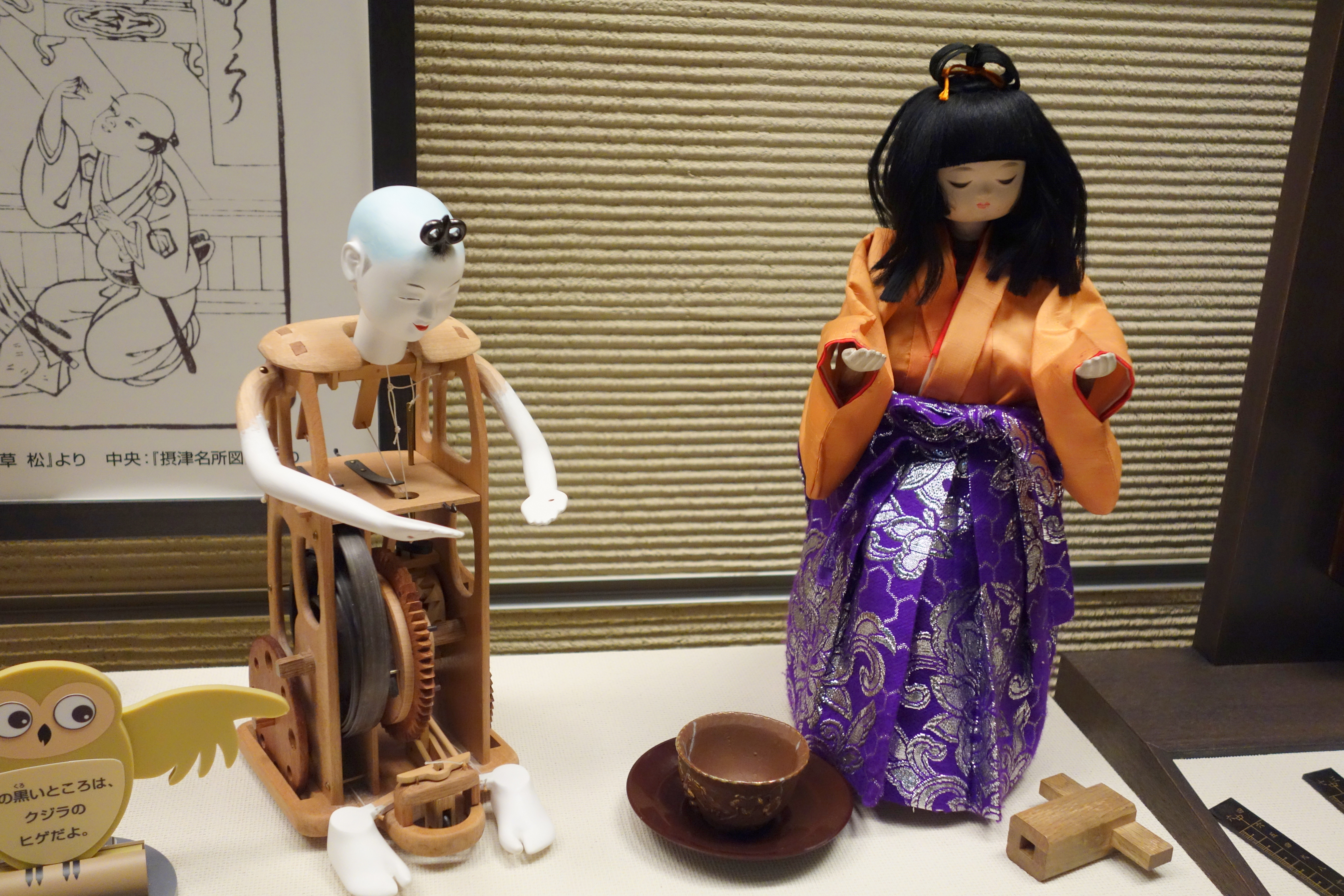 Exhibit in the National Museum of Nature and Science, Tokyo, Japan.